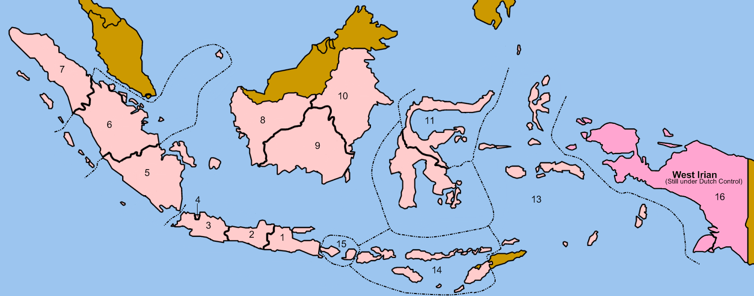 The electoral regions used for Indonesia's 1955 elections. Adapted from Image:Indonesia provinces english.png created by User:Golbez